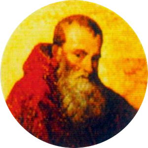 Portait of Pope Paul III in the Basilica of Saint Paul Outside the Walls, Rome